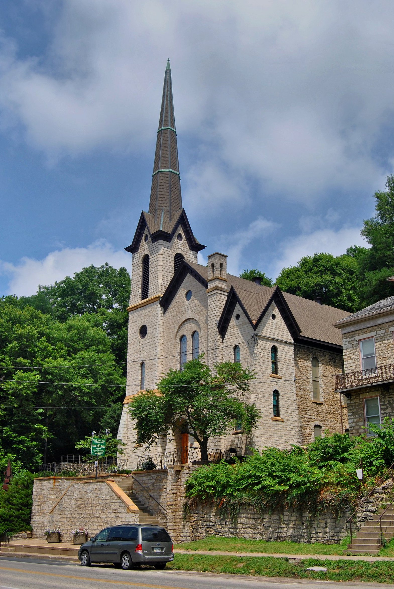 The historic German Methodist Episcopal Church (built 1868), located at the intersection of 7th and Washington Streets in Burlington, Iowa, United States, is listed on the US National Register of Historic Places.